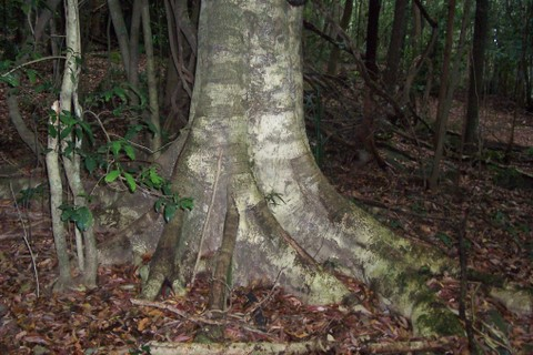 Elaeocarpus kirtonii at Morton National Park